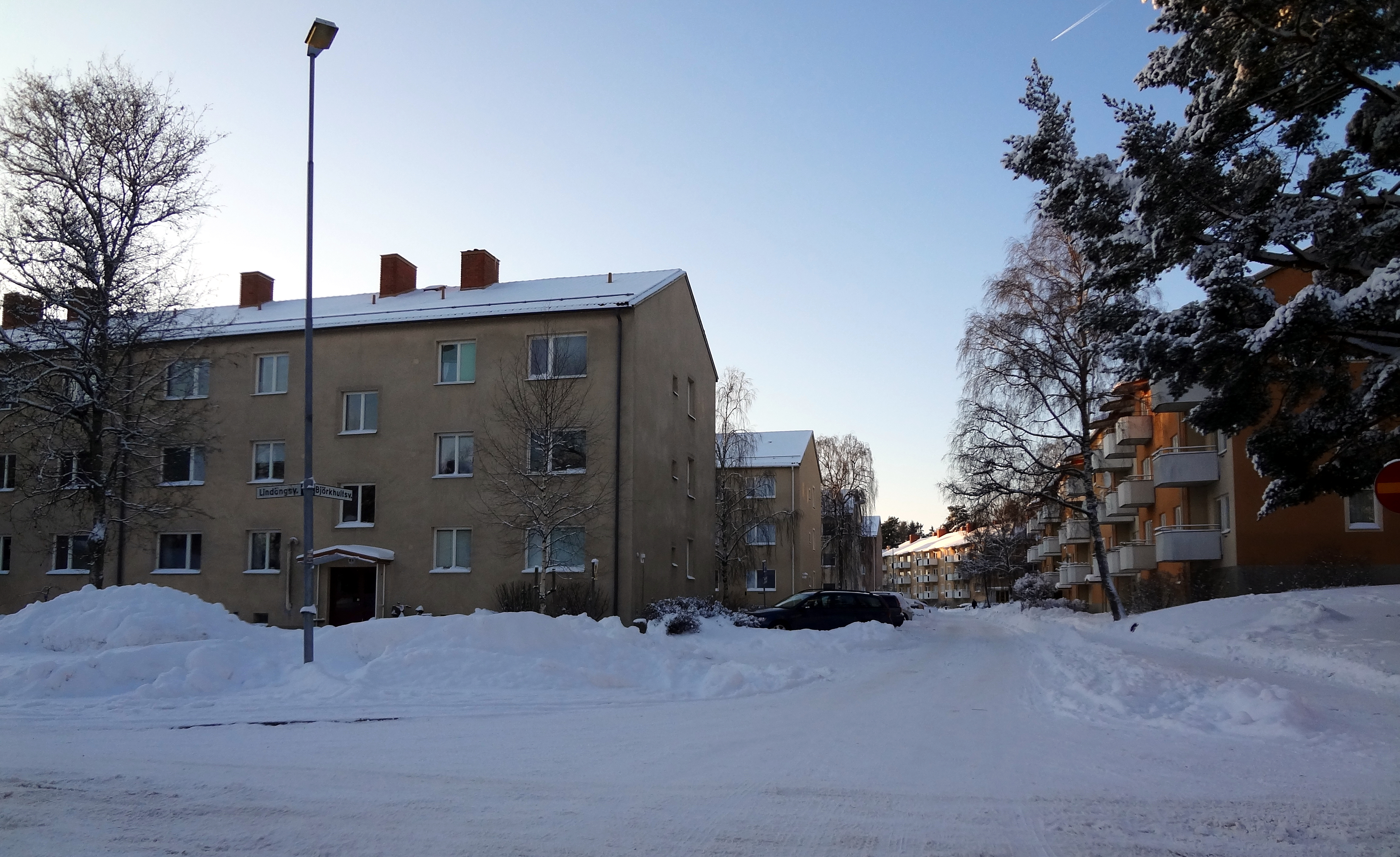 Fröslunda in Eskilstuna, junction Björkhultsvägen-Lindängsvägen.